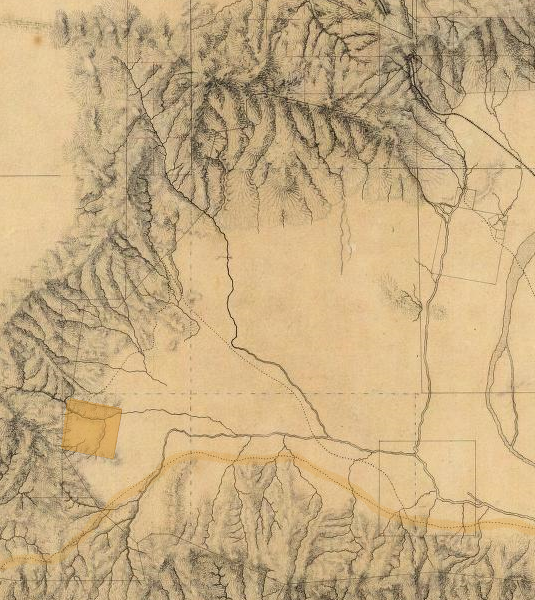 Detail of the San Fernando Valley, from a manuscript map of Los Angeles and San Bernardino topography, 1880, by William Hammond Hall, Office of the State Engineer, California. The map shows Rancho El Escorpión (shaded, left in the foothills), Rancho El Encino or Rancho Los Encinos (lower right), Mission San Fernando Rey de España (upper right). The shaded dotted line is the Spanish El Camino Real. Rancho El Escorpión was formerly in Canoga Park (1913-1980s), and currently is in West Hills.